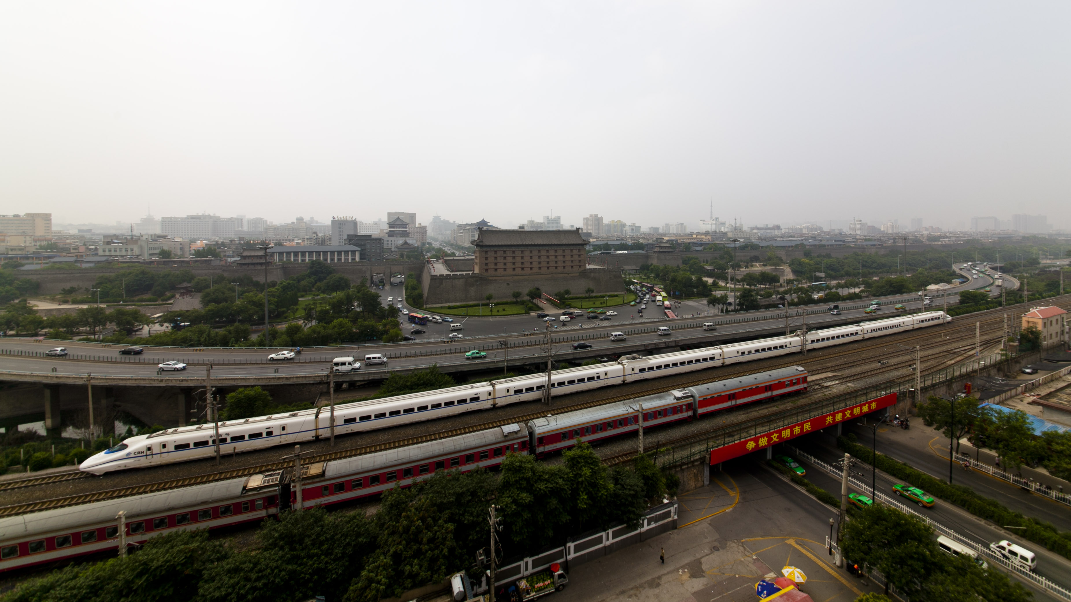 CRH2 EMU at Xi'an, near Anyuan Gate